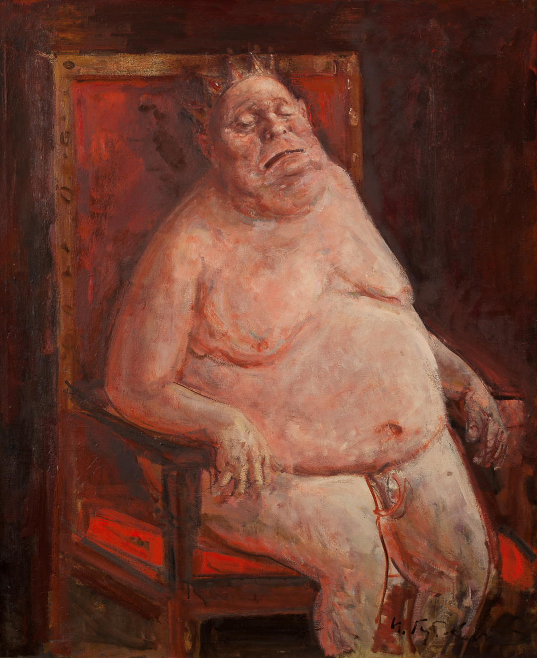 Igor Gubskiy artwork - Saddled with Power, 2014. Oil on canvas.